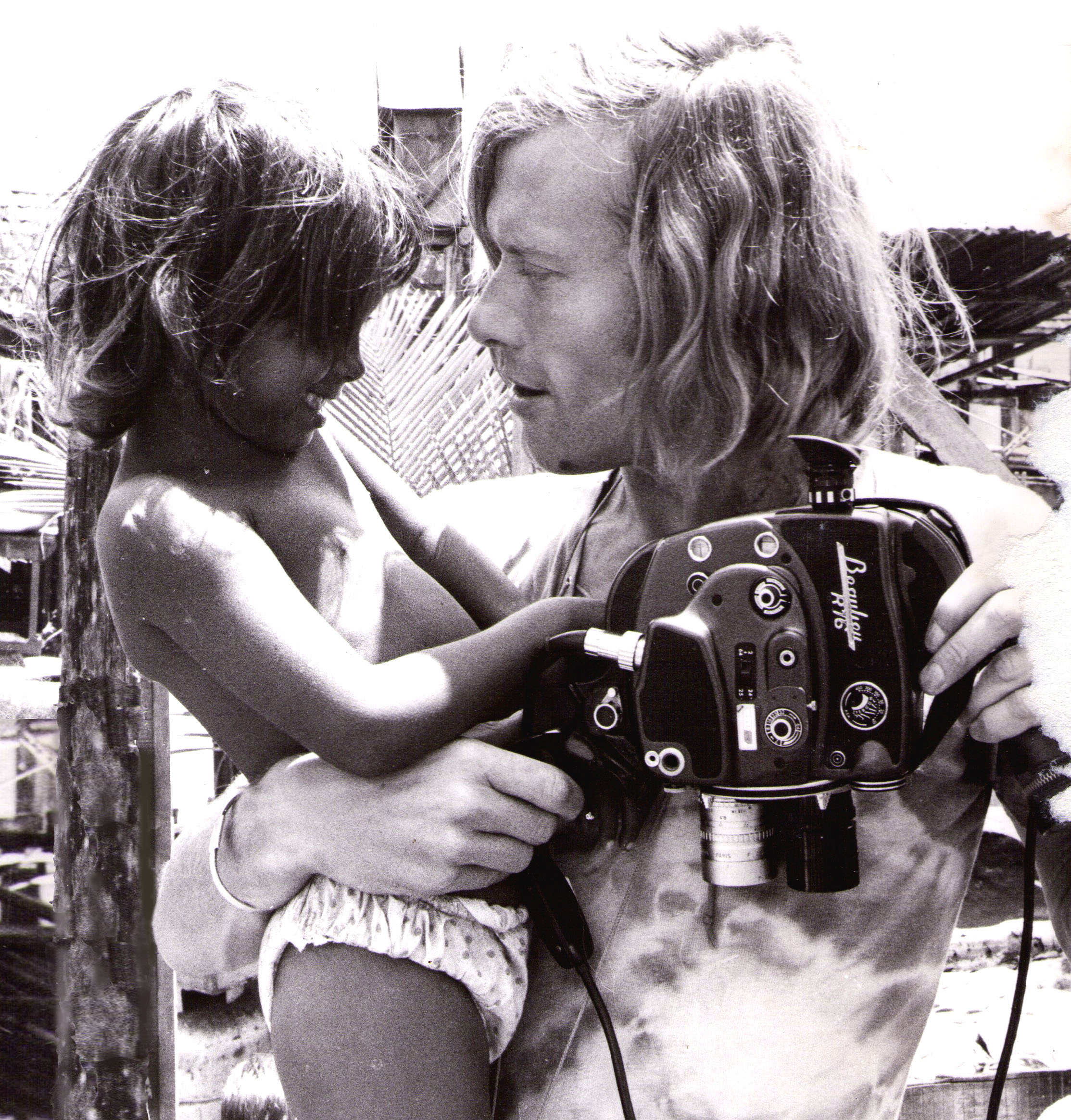 Jean-Paul Janssen with his Beaulieu-Camera in Brazil 1970